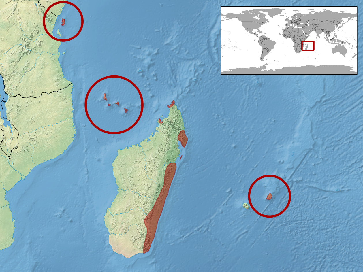 geographic distribution of Ebenavia inunguis (Native: Comoros; Madagascar; Mauritius; Mayotte / Introduced: Tanzania, United Republic of)